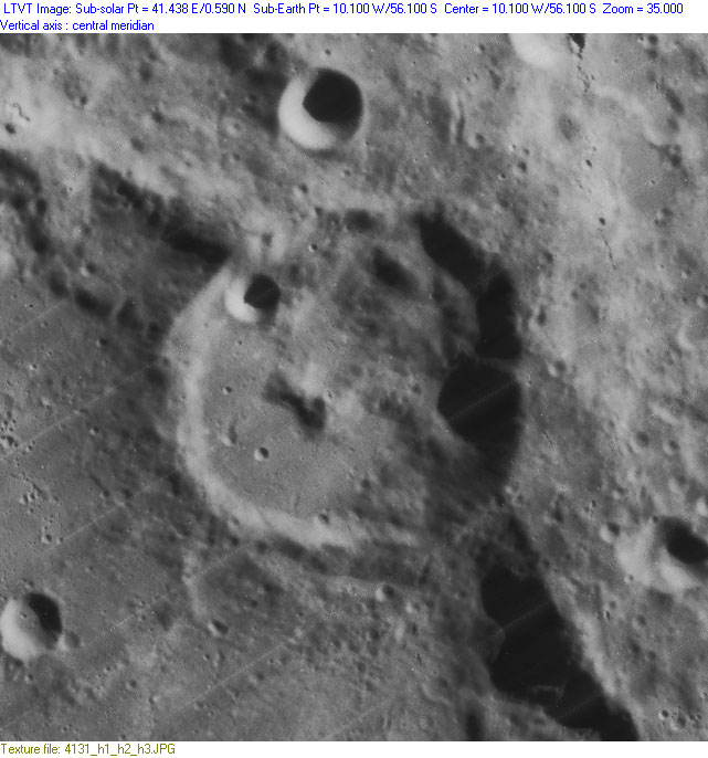 Crater Porter. Detail from Lunar Orbiter IV-131H. High resolution scans from the USGS Lunar Orbiter Digitization Project remapped to a north-up aerial view by LTVT.